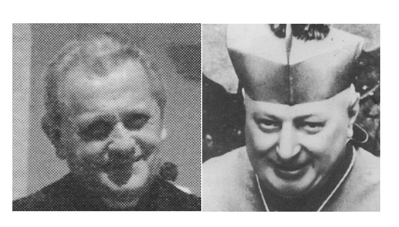 Picture of Beniamino Socche and Giuseppe Marchi